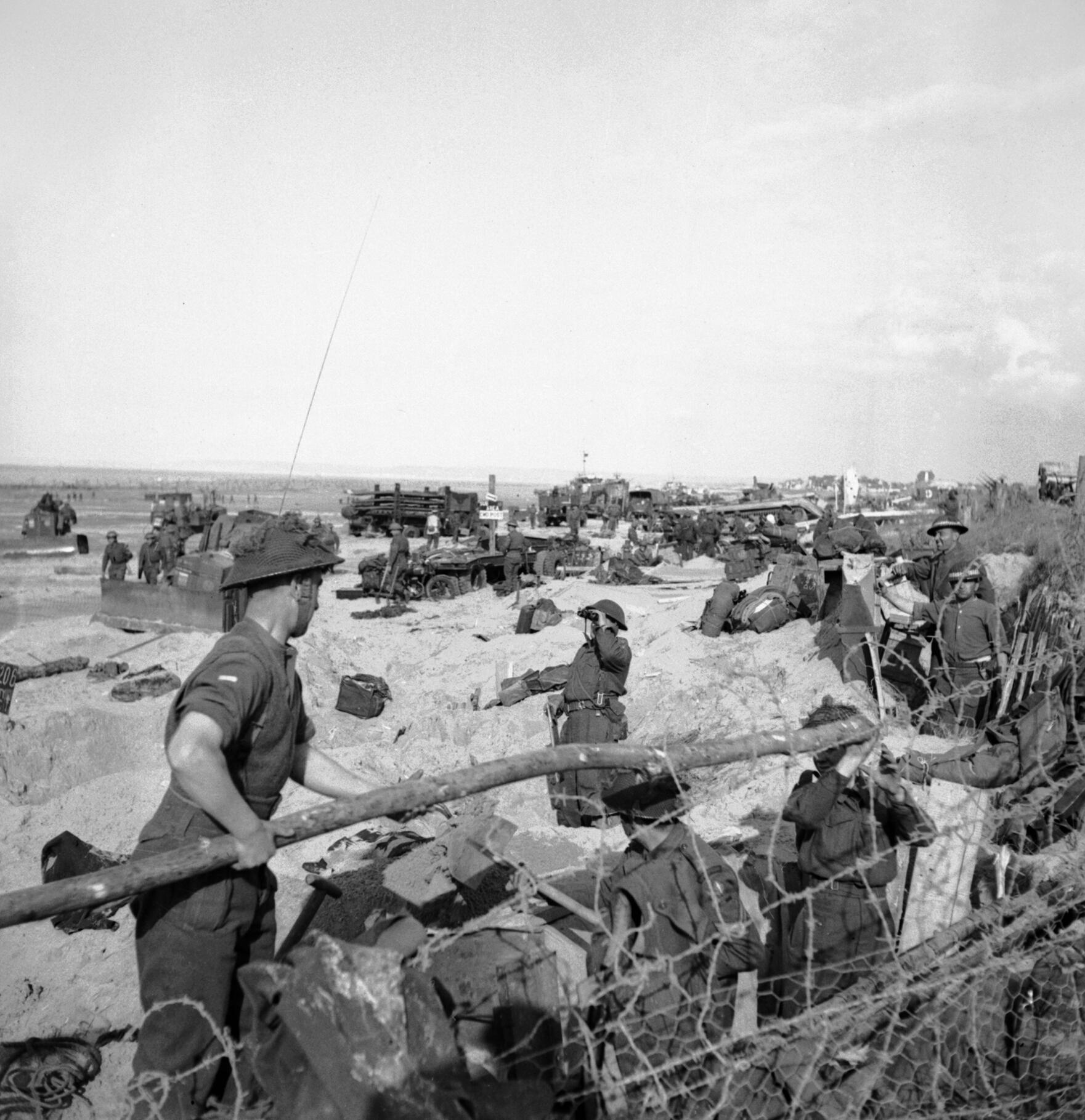 British troops and naval beach parties on Sword Beach in Normandy on D-Day, 6 June 1944. British troops and naval beach parties on Sword Beach in Normandy on D-Day, 6 June 1944.